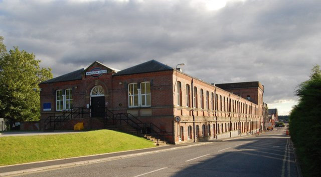 Rivington House, Horwich Works, near to Horwich, Bolton, Great Britain.